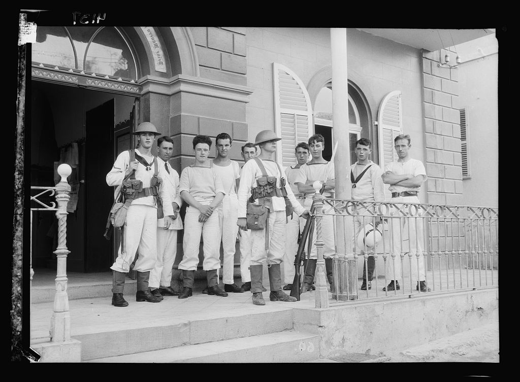 Title: Palestine events. The 1929 riots, August 23 to 31. British marines in Jaffa taken at entrance of hotel where they were billeted Abstract/medium: G. Eric and Edith Matson Photograph Collection Physical description: 1 negative